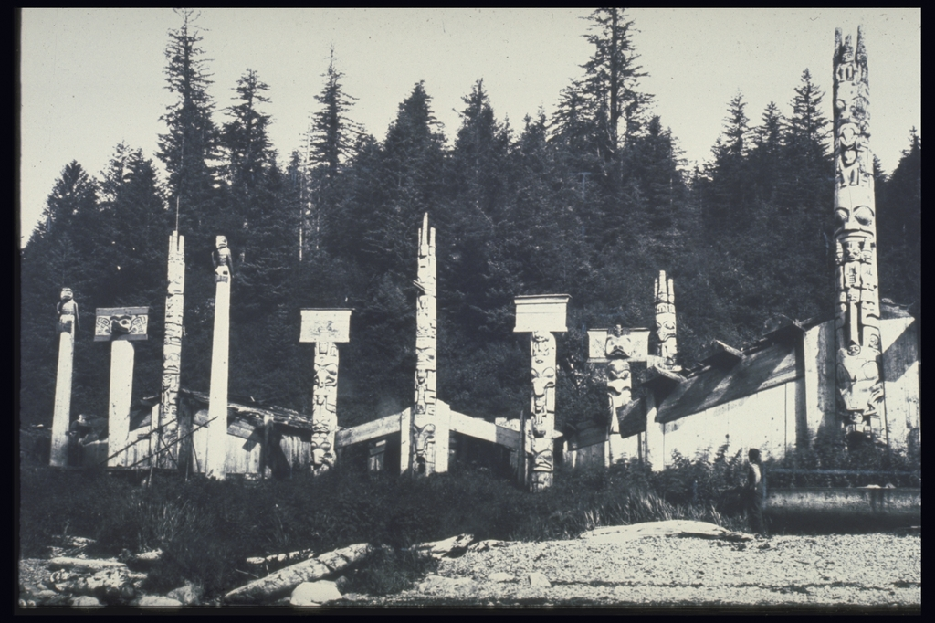 Village scene, Cumshewa